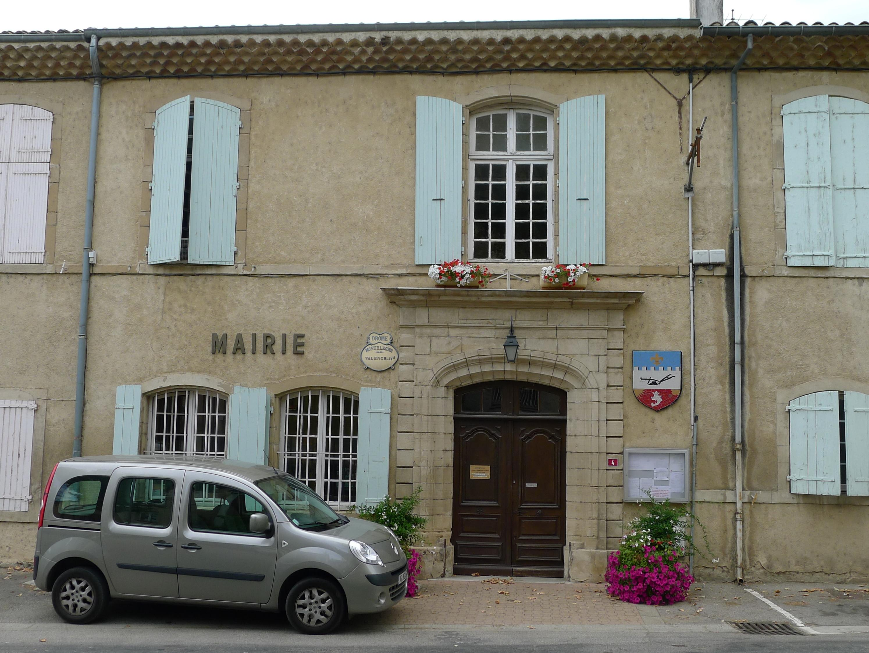 town hall of Montéléger - Drôme - France